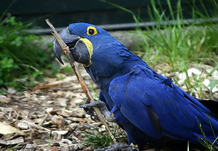 Anodorhynchus hyacinthinus at Krefelder Zoo